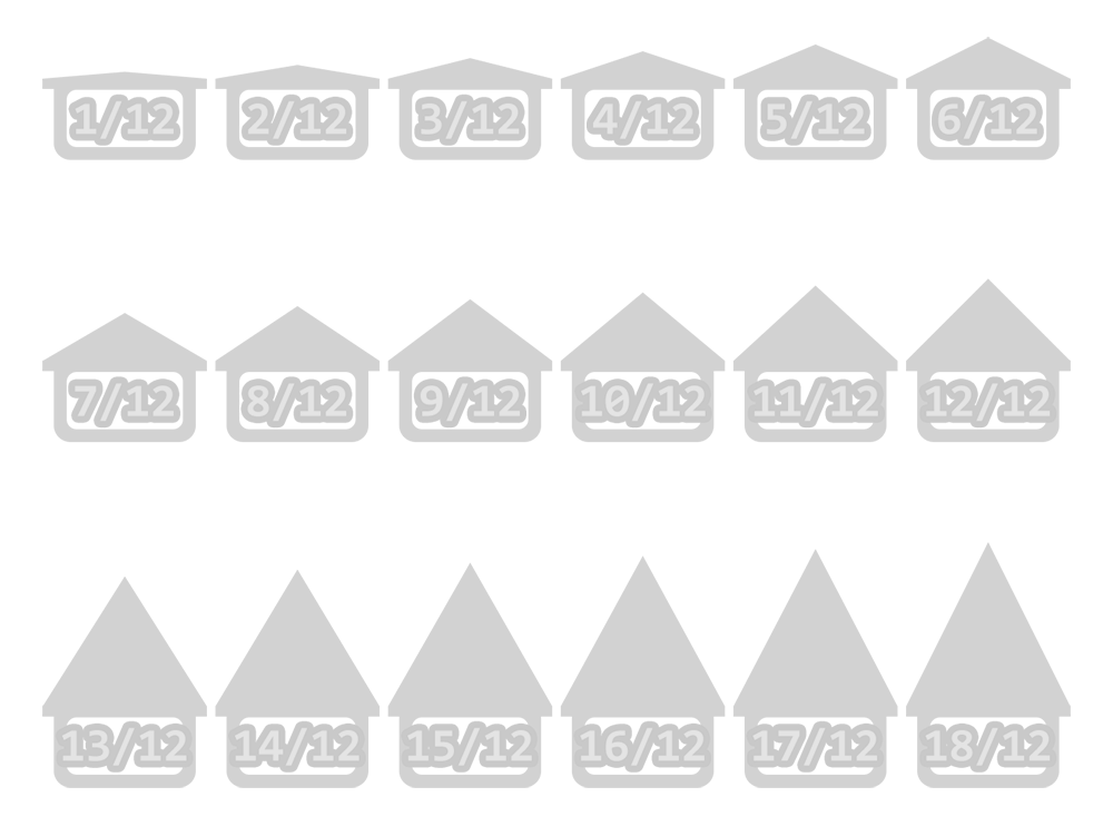 This image exhibits the different pitches (rise/run) for roofs, and the number corresponding to that pitch is displayed below the roof line. The number is spoken as "1 in 12" (for the first pitch provided). This means that for every 1 unit of rise, the roof has 12 units of run.